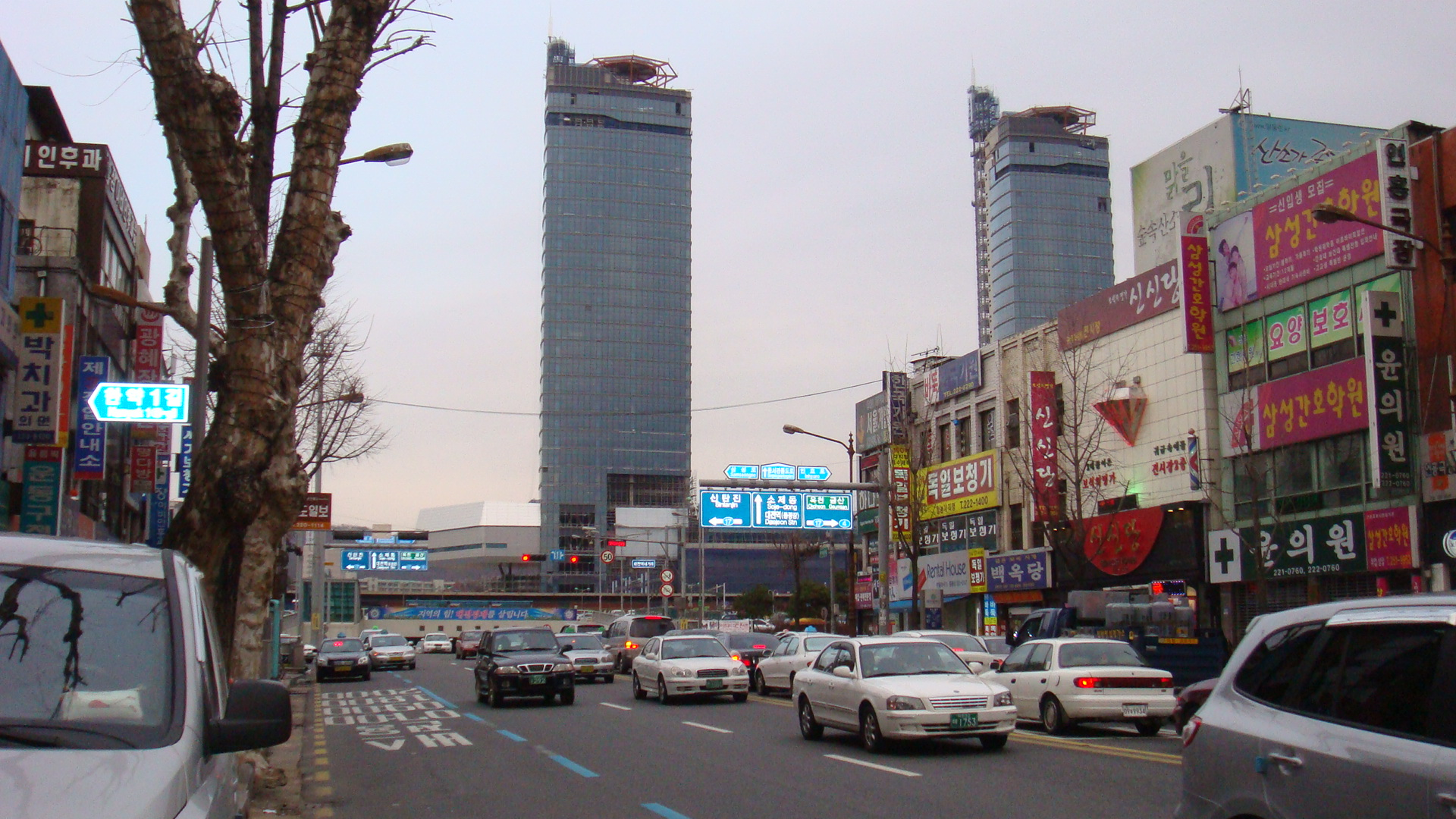 thanks to the Commonist